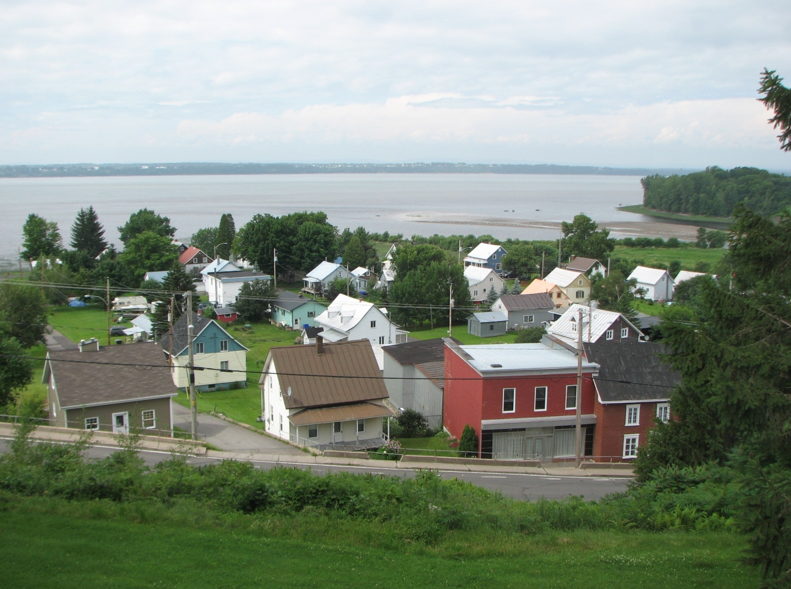 A part of the town of Leclercville